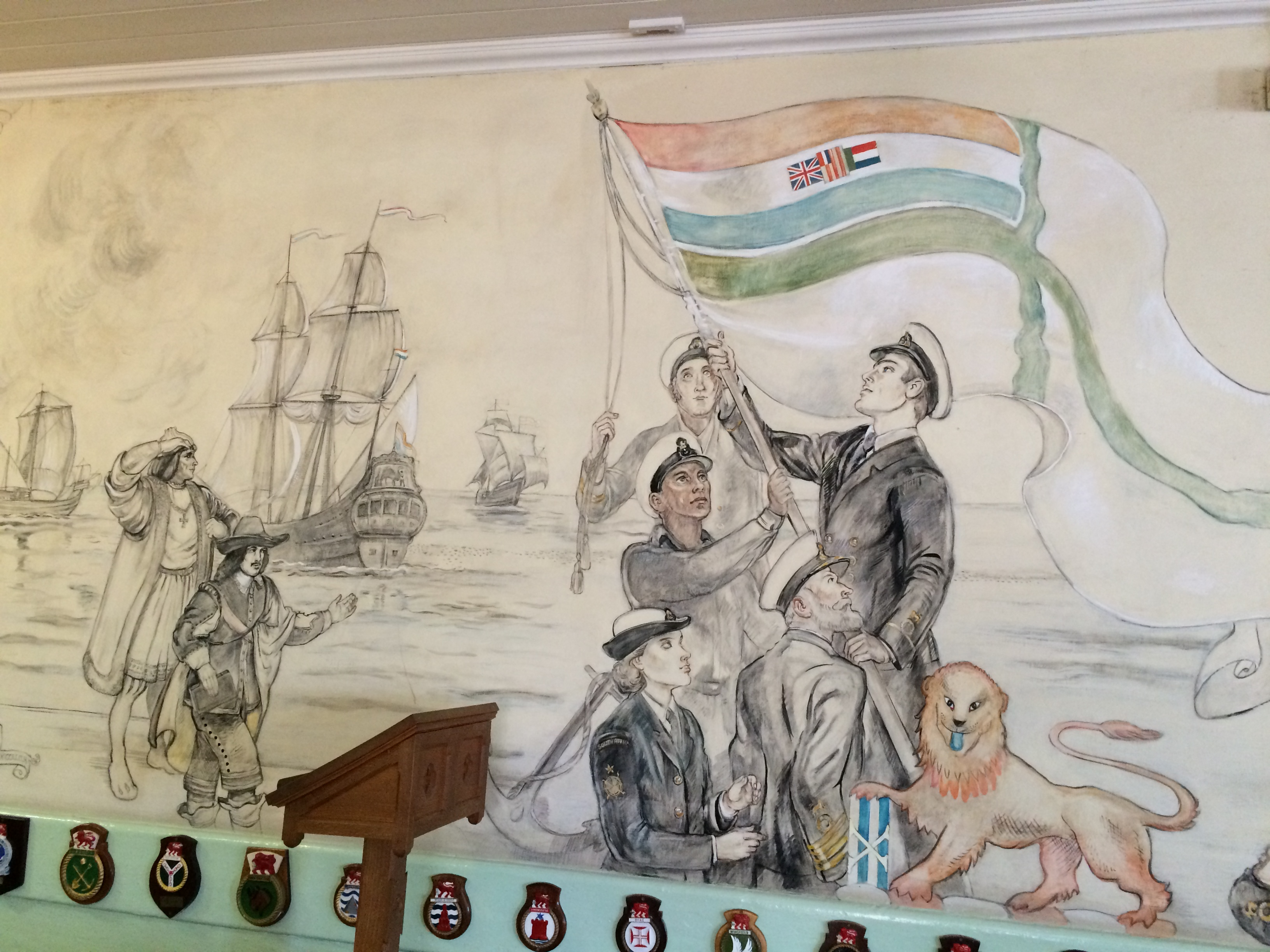 SA Navy's Museum - Simon's Town, Western Cape, South Africa.